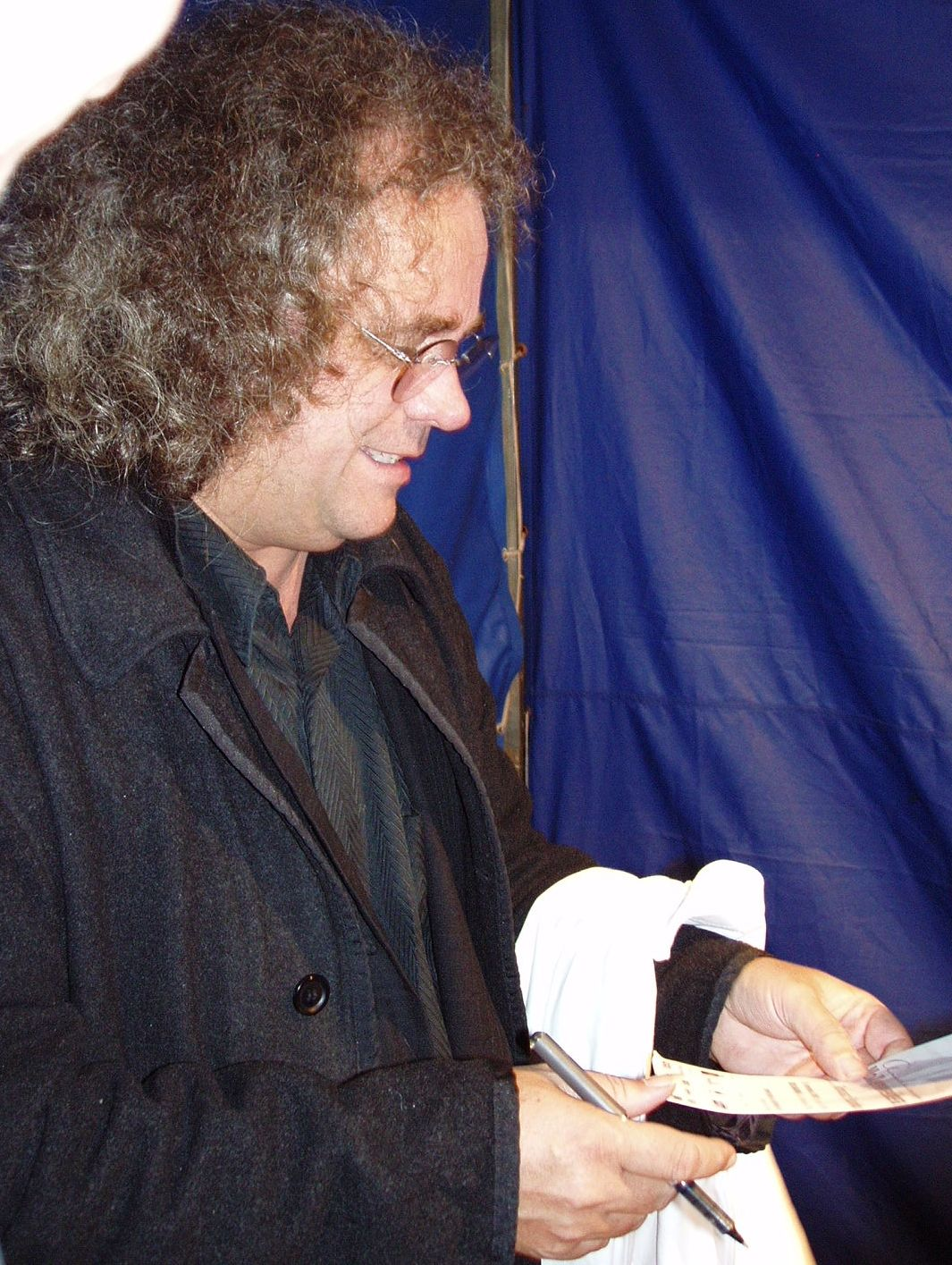 Andreas Vollenweider in Warsaw, 2005